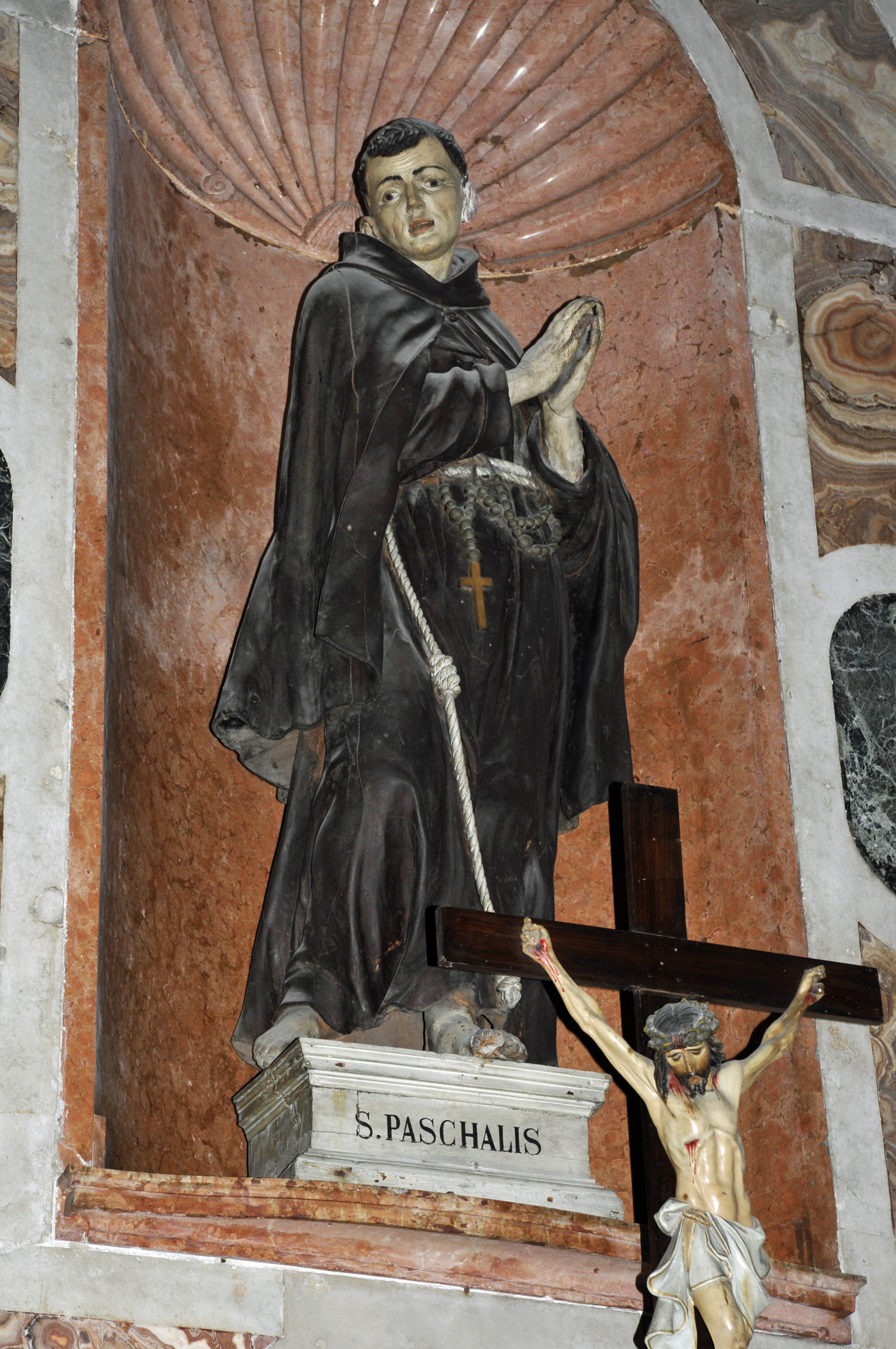 Givent to Marchiò Molziner (17th century): Statue of Saint Paschal Baylon (1691), in the left transept of San Francesco della Vigna church in Venice.